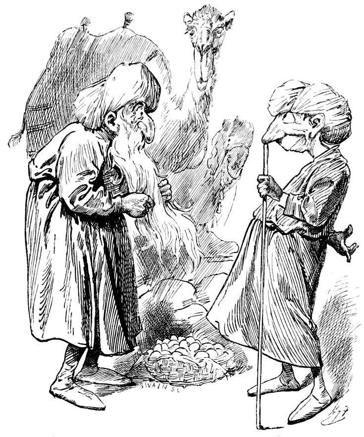 Illustration by Harry Furniss in Sylvie and Bruno Concluded